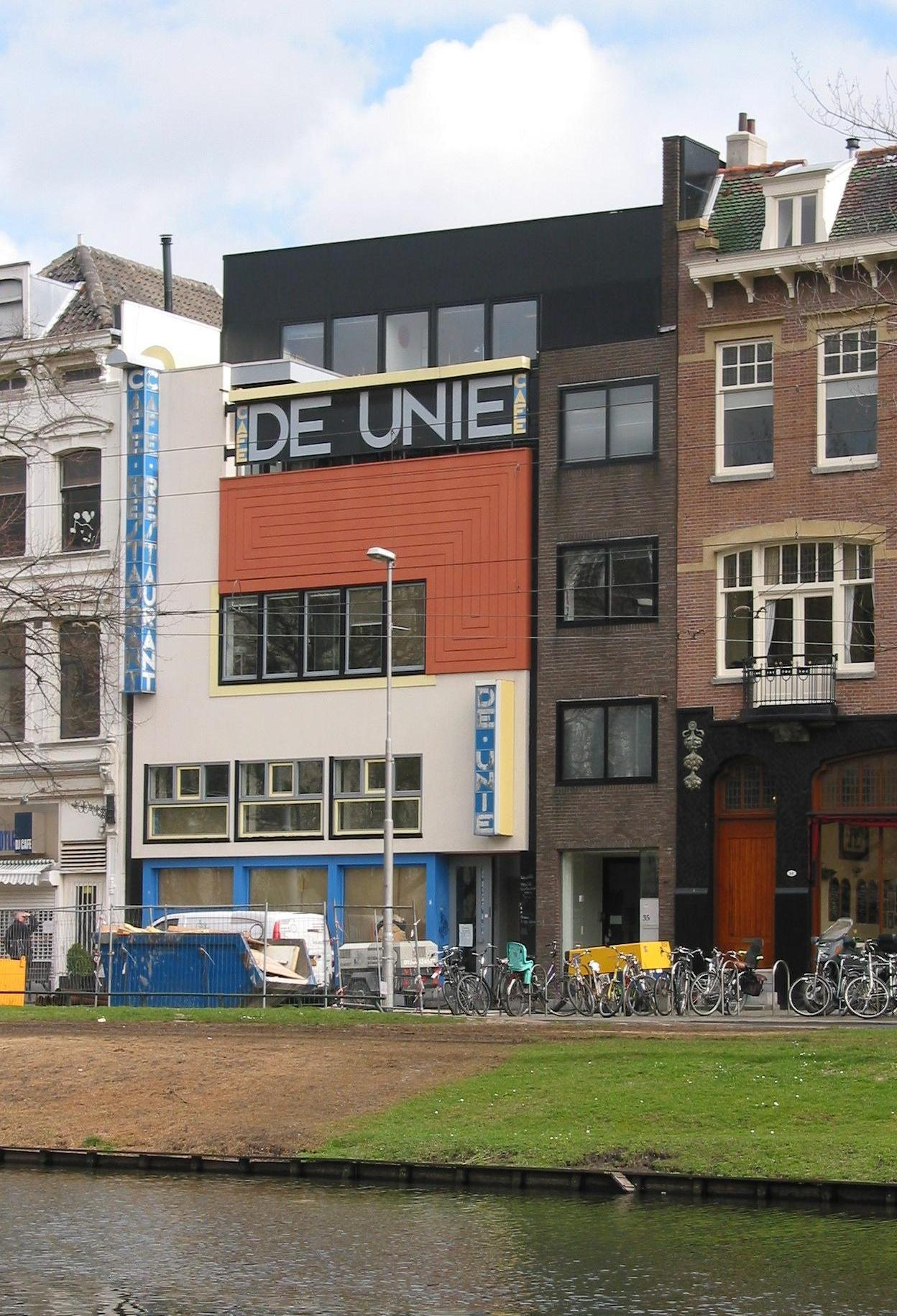 Café De Unie, Mauritsweg, Rotterdam. Shortly before being renovated.